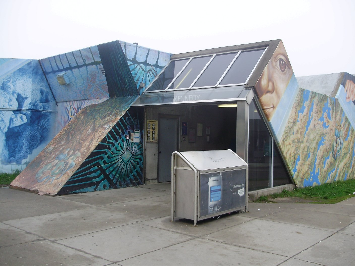 An entrance to the Kennedy TTC station in Toronto, Ontario.